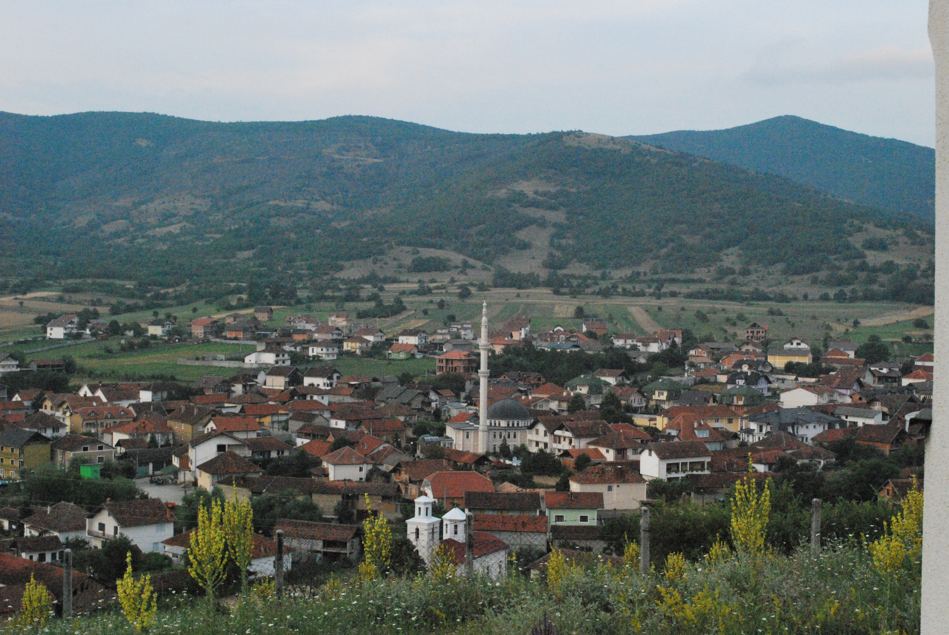 Miletino, Macedonia